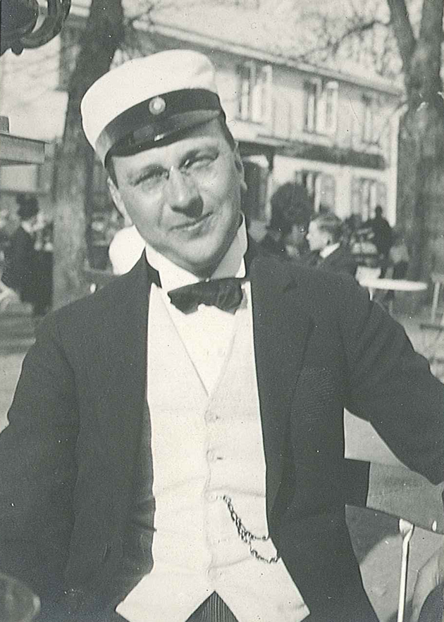 Olof Sundin (1886-1928), Swedish archaeologist and later head of "Åkerbrukskolonin Hall" (a youth detention center). Photo taken during Sundin's days as a prominent student union politician at Lund University.